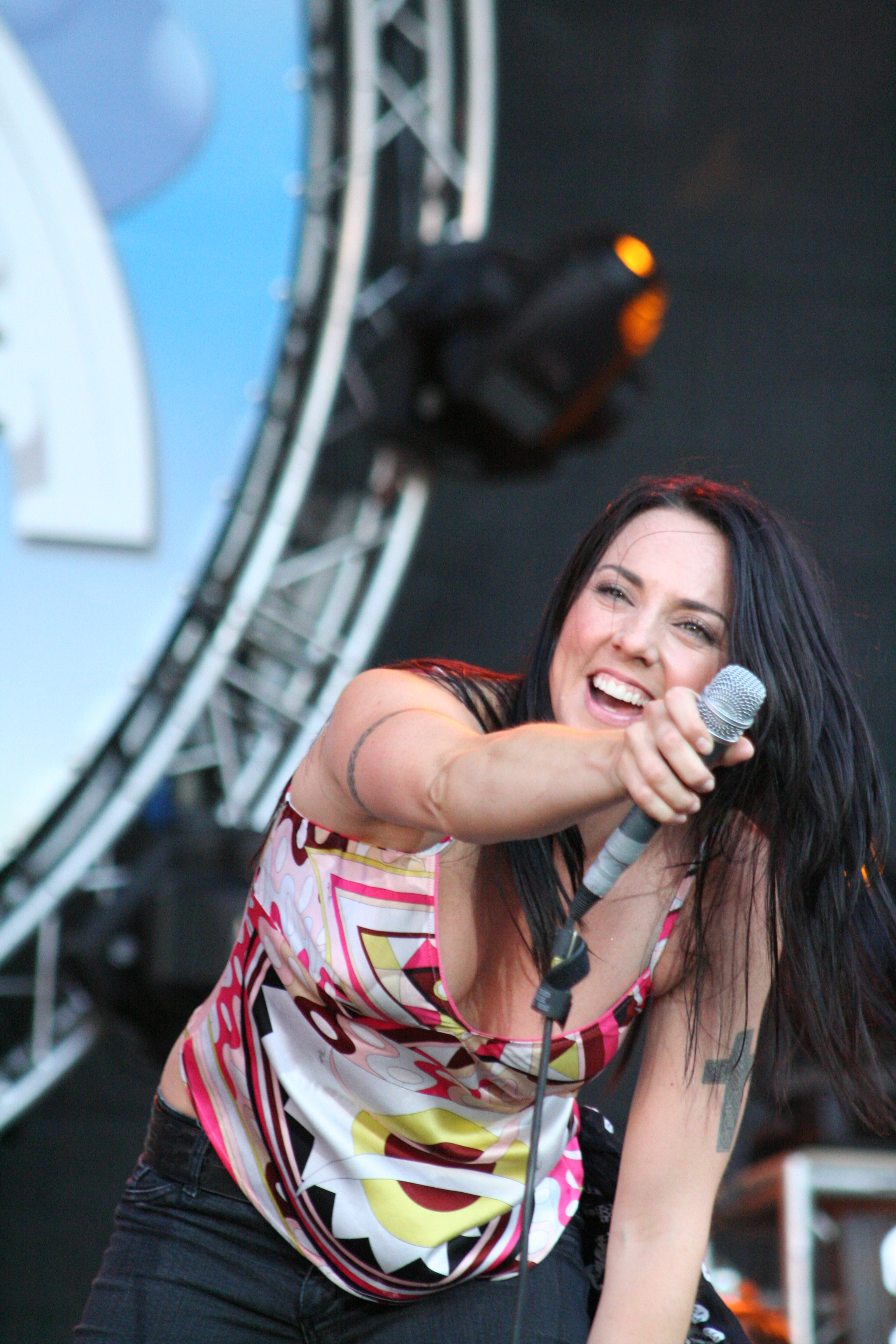 MelC bei der Arena Of Pop 2006- Nr. 002 MelC at Arena of Pop 2006 - No. 001